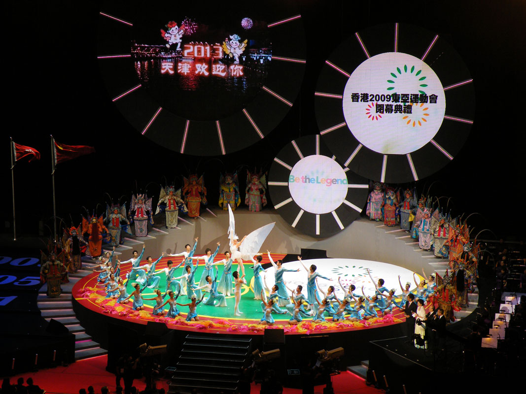 2009 East Asian Games Closing Ceremony - Tientsin showtime